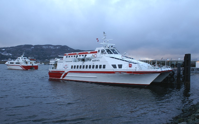 Fosen trafikklag, with m/s Agdenes and m/s Fosningen in harbour. AGDENES IMO Number: 9018804 Callsign: LEBL FOSNINGEN IMO Number: 9018816 Callsgn: LEAQ